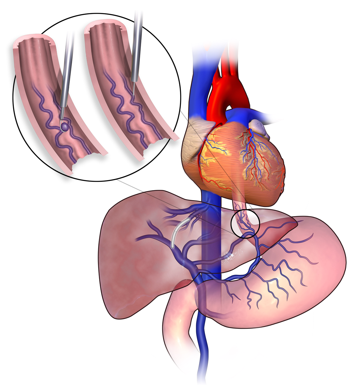 Sclerotherapy. This image was donated by Blausen Medical. Please visit our website to see more medical illustrations and animations.